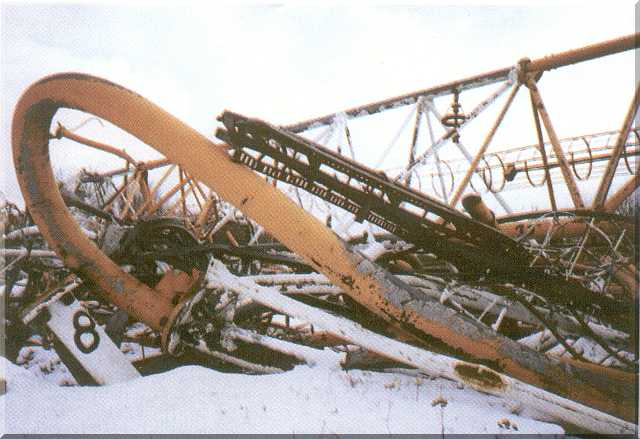 The Warsaw radio mast which was the world's tallest structure until its collapse in 1991.